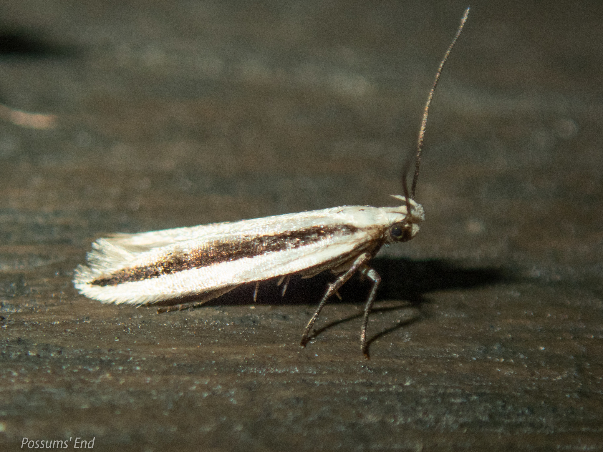 Kiwaia monophragma. Species of insect.